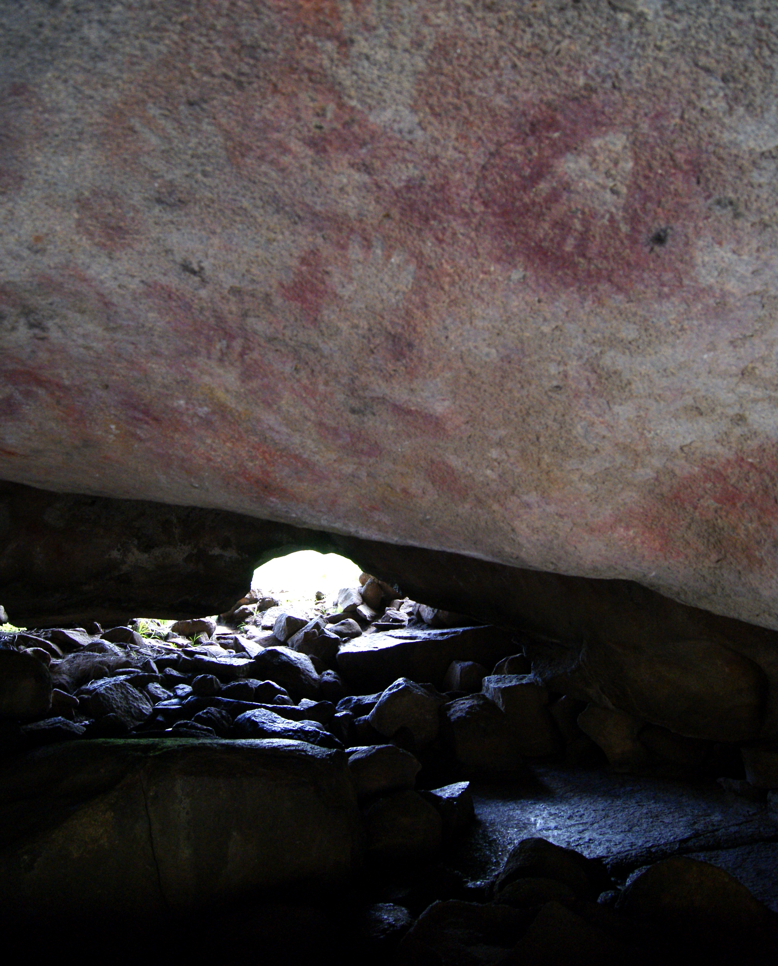 Mulkas cave. Hand prints on the cave wall, Hyden.